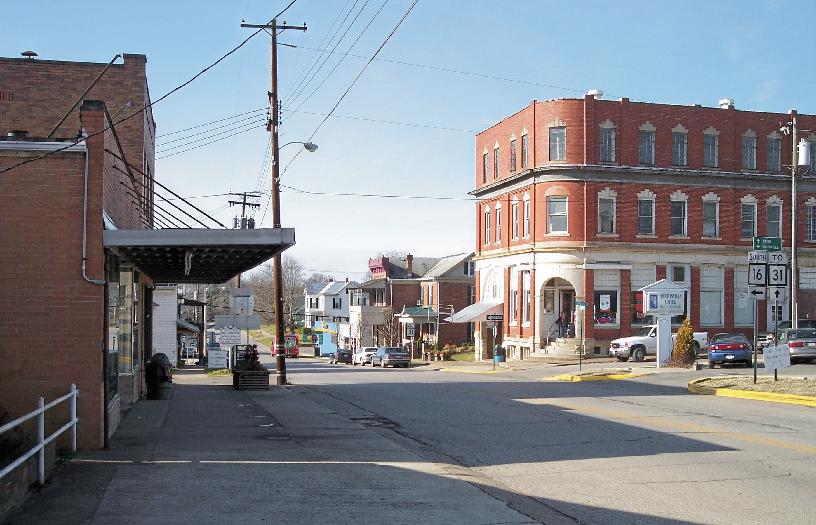 Main Street (West Virginia Route 16) in Harrisville, West Virginia